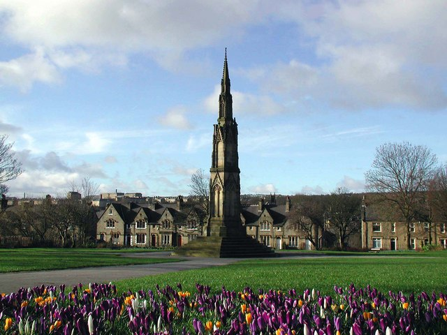 Square Park, Boothtown The monument at the centre of the small park, "of Christian reverence for the emblem of the cross and of loyalty to our Sovereign Lady Queen Victoria" according to its inscription, was donated by Edward Akroyd, founder of Akroydon in 1859. Designed by William Swinden Barber in 1875.